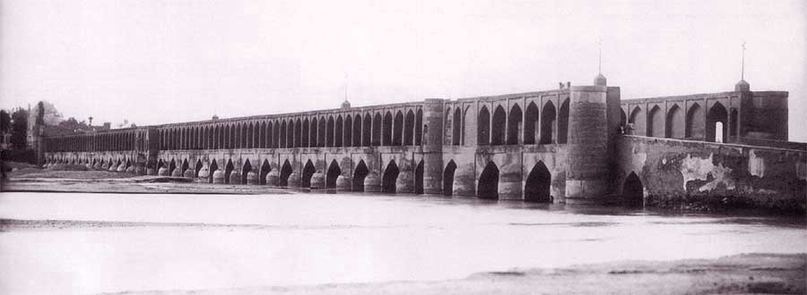 Si-o-se Pol (bridge), Allah Verdi Khan-Brücke, Isfahan.